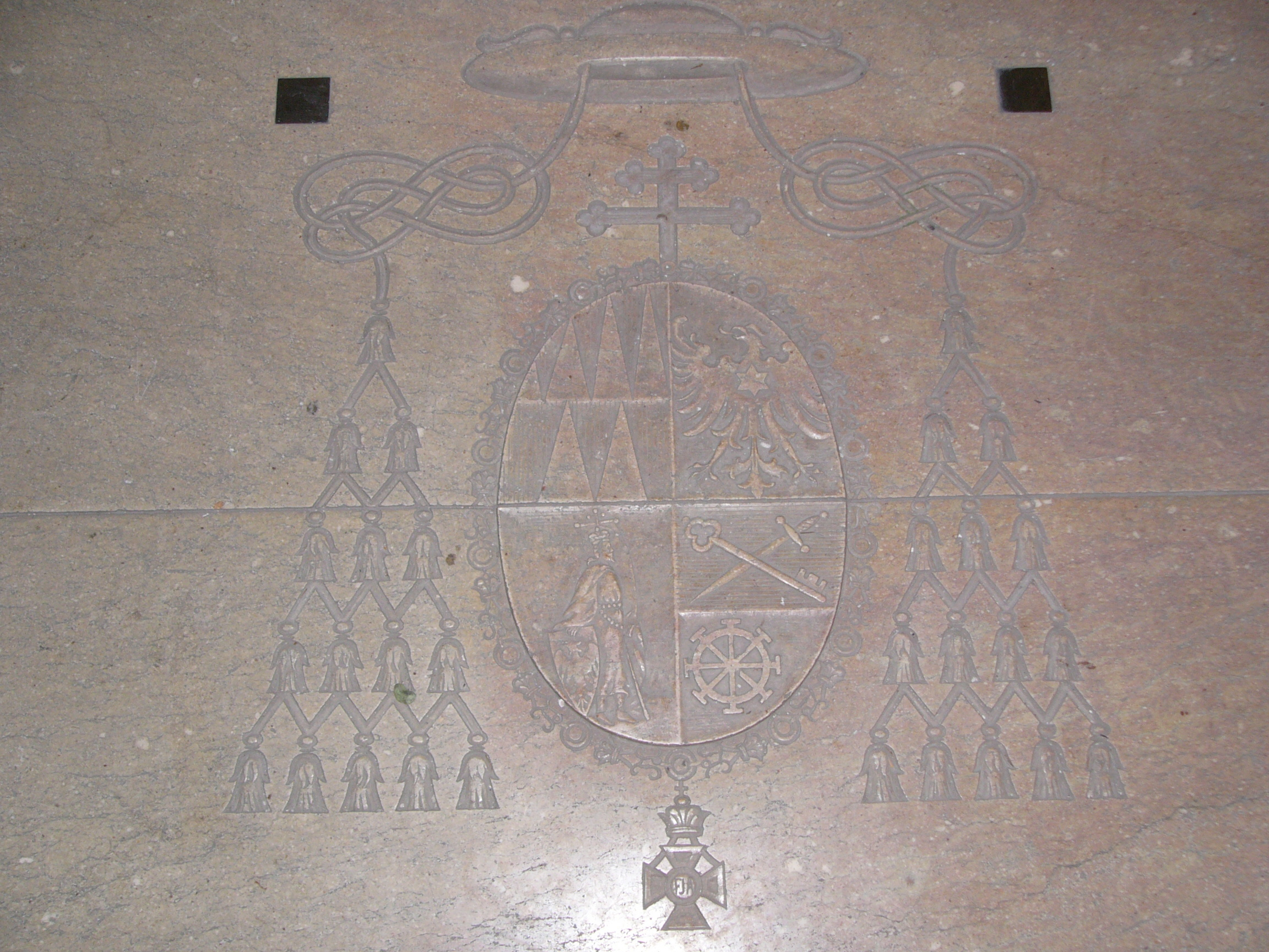 Coat of Arms of František Saleský Bauer in St. Wenceslaus cathedral in Olomouc (Czech Republic).